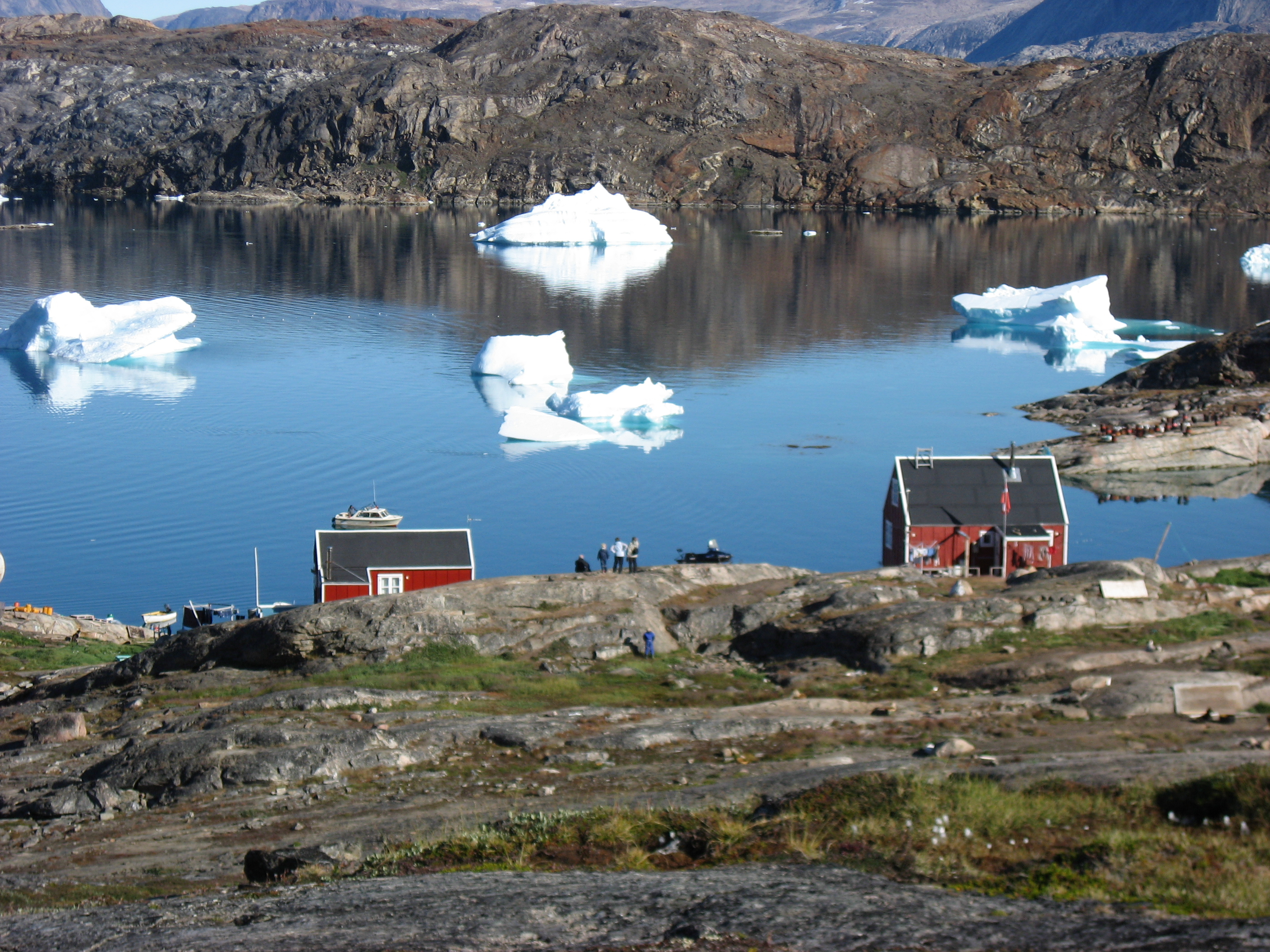 Detail of Naajaat. One of several images used for building the panorama: File:Naajaat panorama 2007-08-09 2 cropped USM downsampled.jpg.